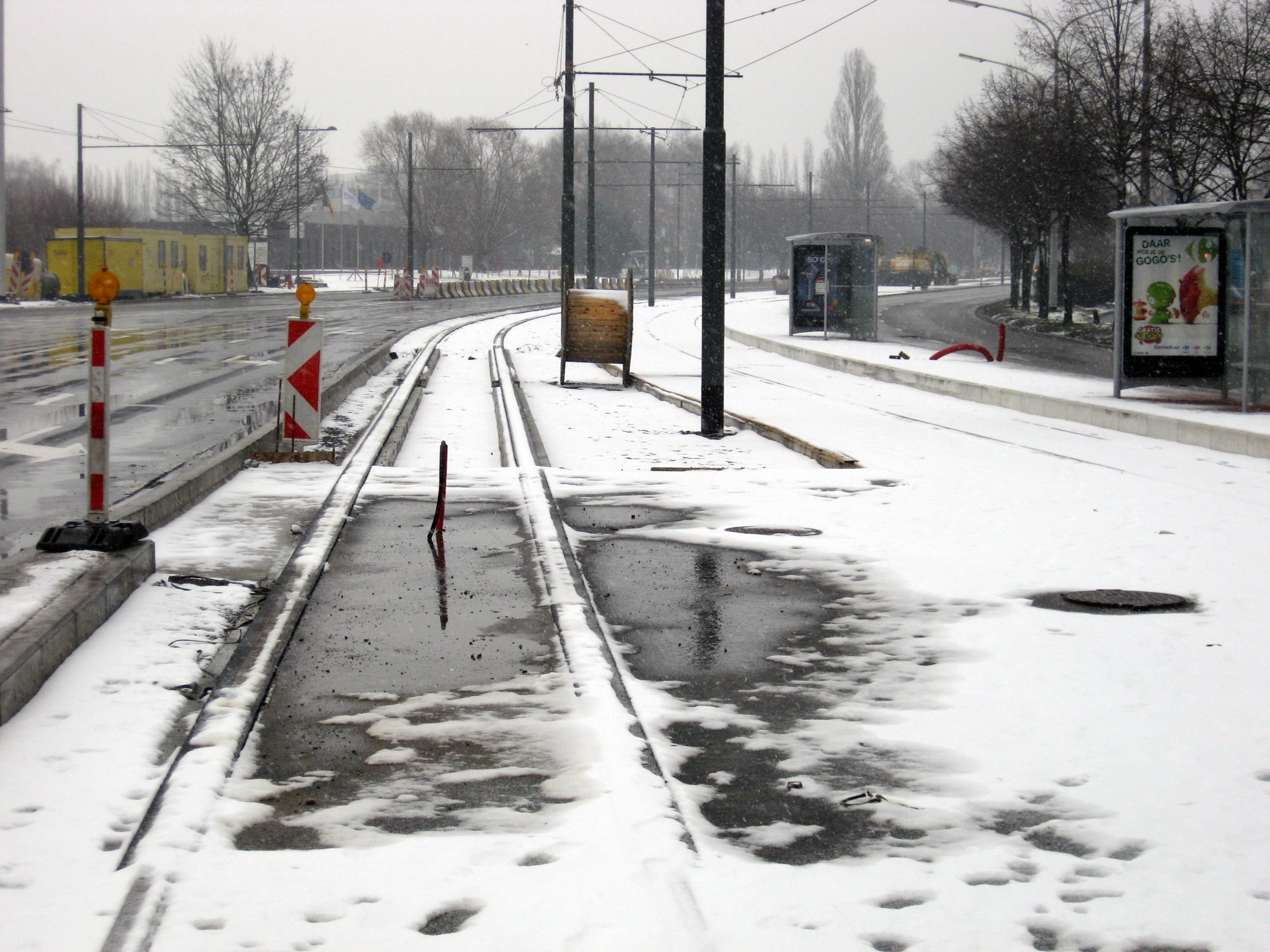 New tramline in Evere at the last stop.